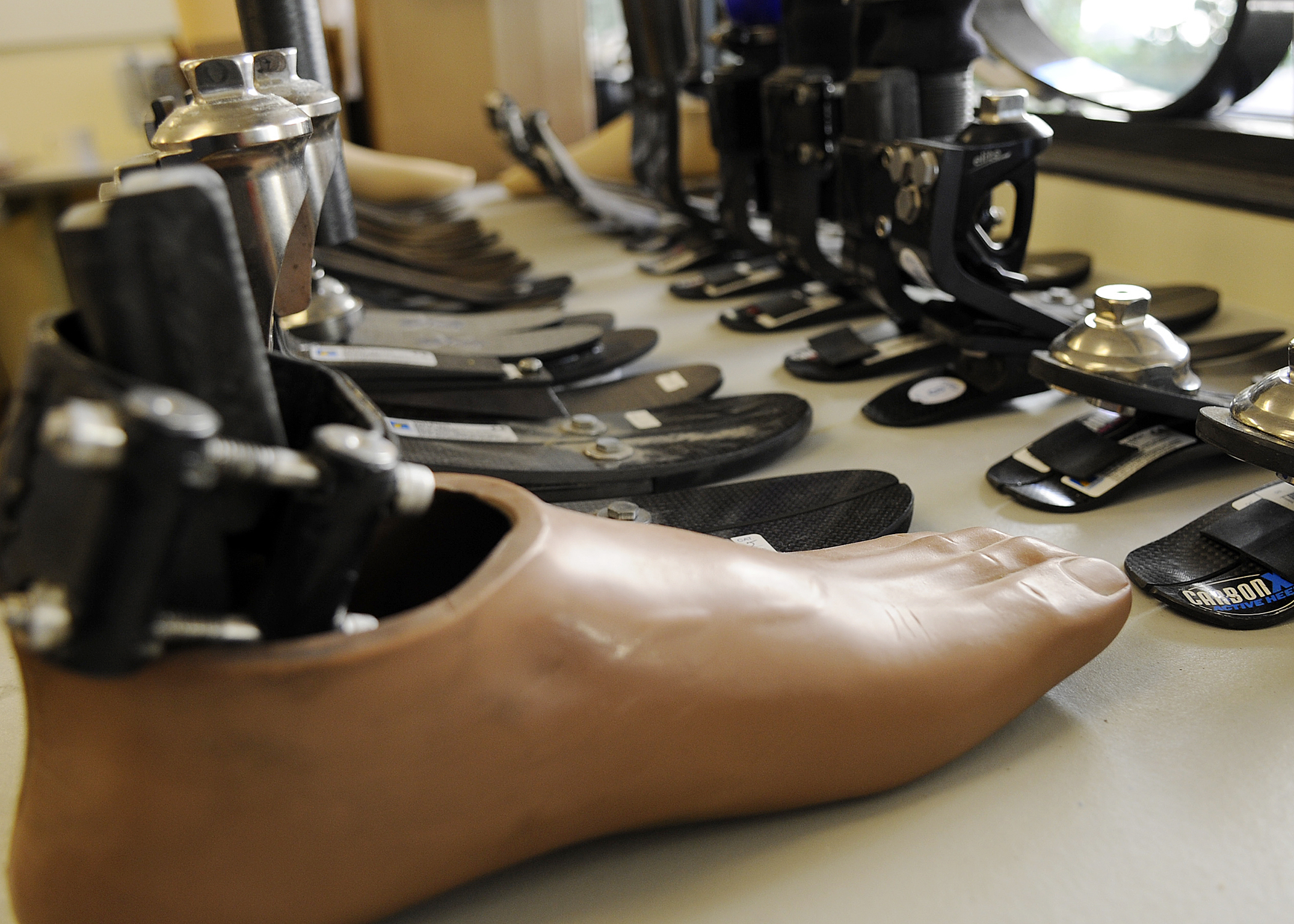 SAN DIEGO (Nov. 12, 2010) A variety of custom carbon technology prosthetic feet are made in the prosthetic laboratory at Naval Medical Center San Diego. Each foot is developed for the specific patient's weight and impact. The laboratory manufactures and assembles more than 50 upper and lower limbs and extremities each month. (U.S. Navy photo by Mass Communication Specialist 1st Class Anastasia Puscian/Released)